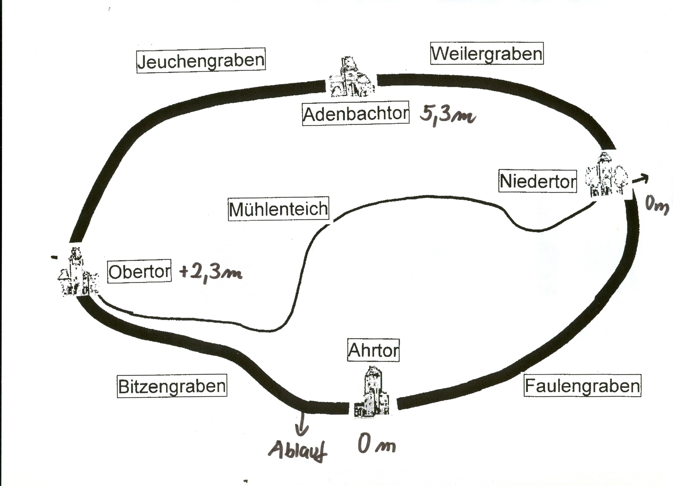 map of fortification Stadtbefestigung Ahrweiler, Zeichnung